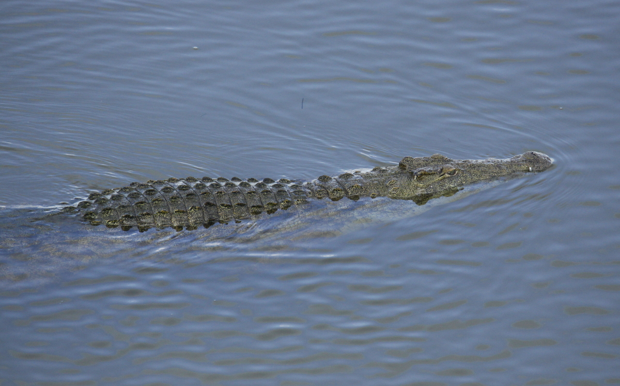 Nile crocodile out for a swim